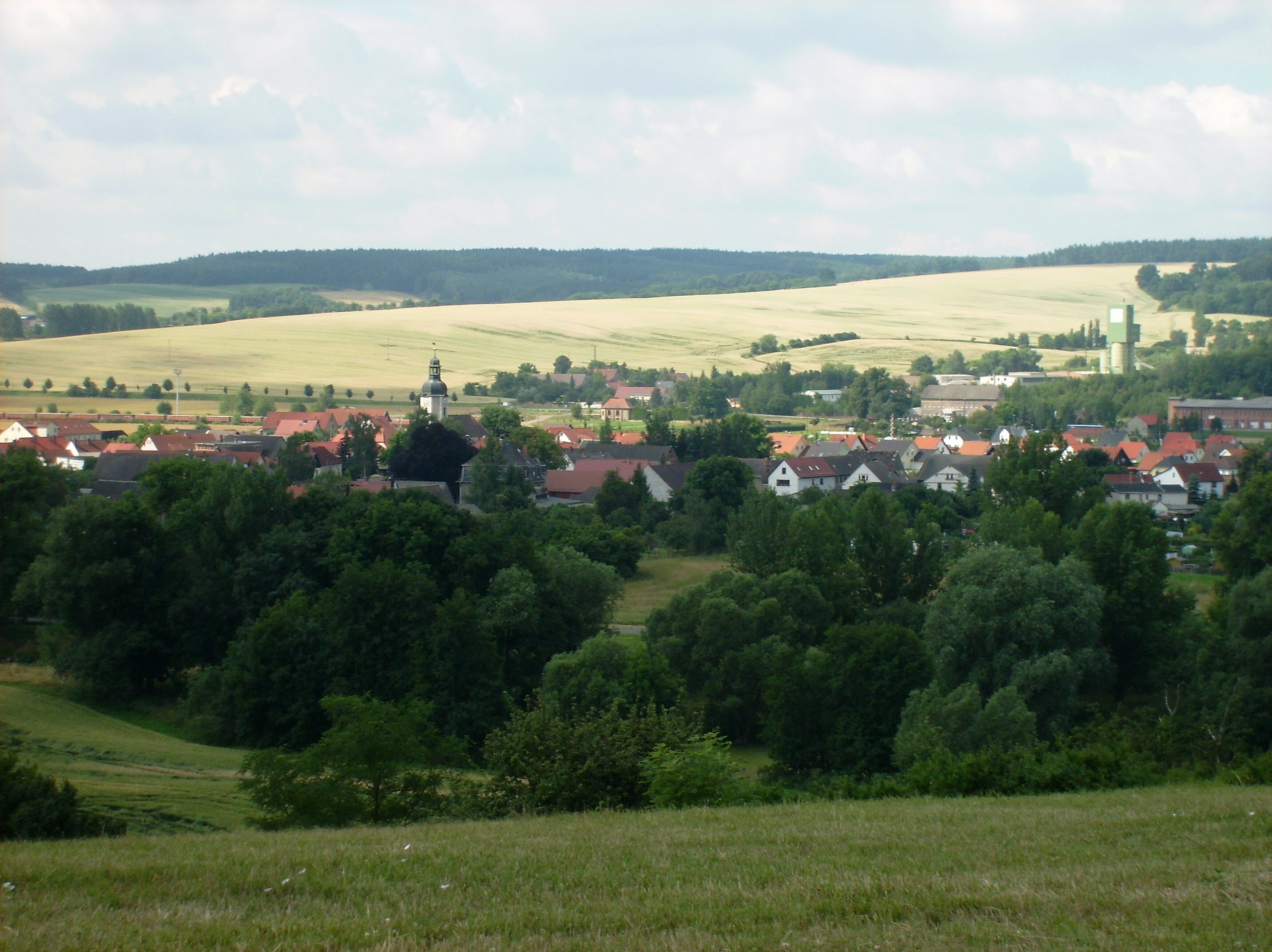 Caaschwitz (Greiz district, Thuringia), view from the east